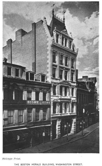 Old Boston Herald Building